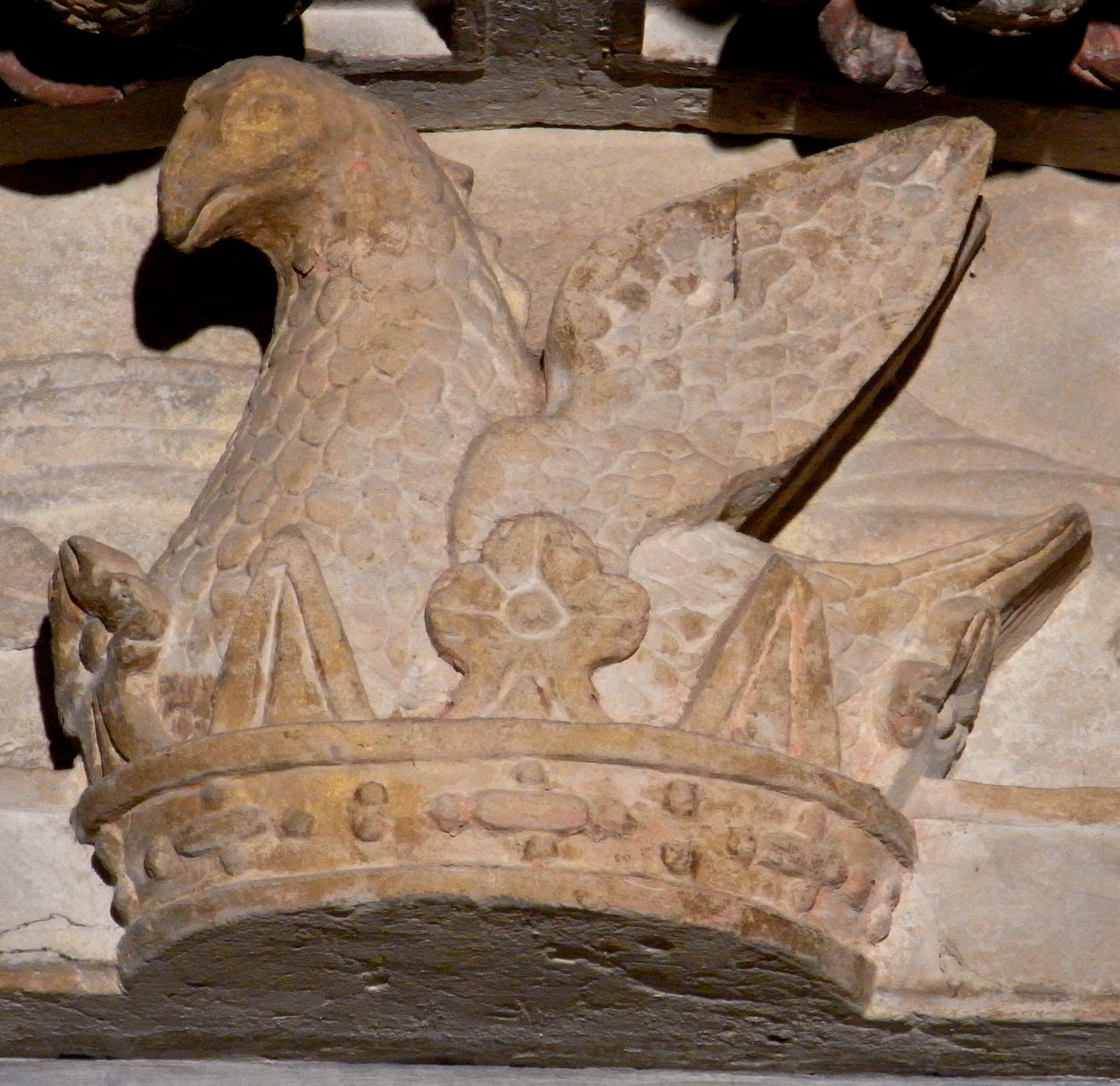 Crest of Lord Edward Seymour (d.1593) of Berry Pomeroy, Devon: Out of a ducal coronet or a demi-phoenix in flames proper. Detail from his monument in Berry Pomeroy Church